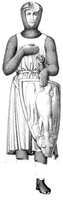 The effigy of Peter II of Savoy from his sepulcrhal monument at Hautecombe Abbey.